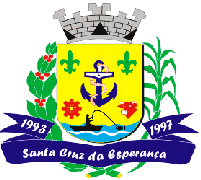 Coats of armas of City Santa Cruz da Esperança